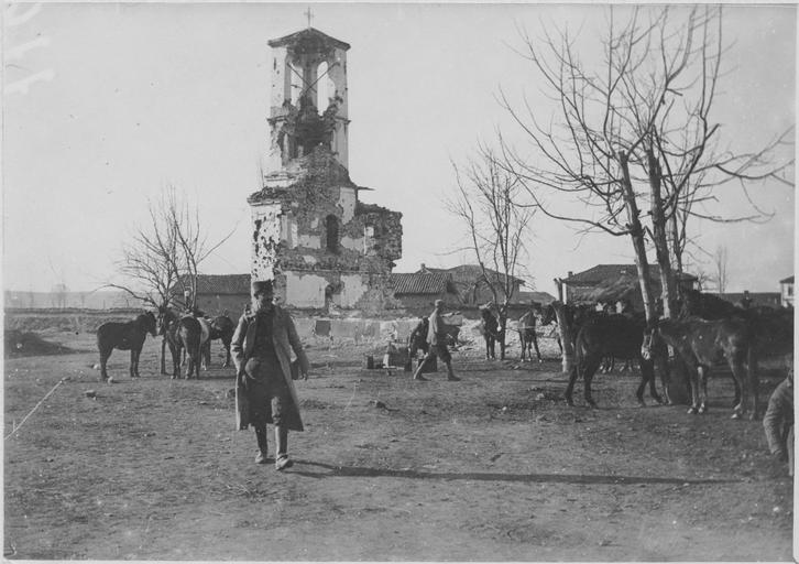 Village of Vrbeni / Itea, Greece